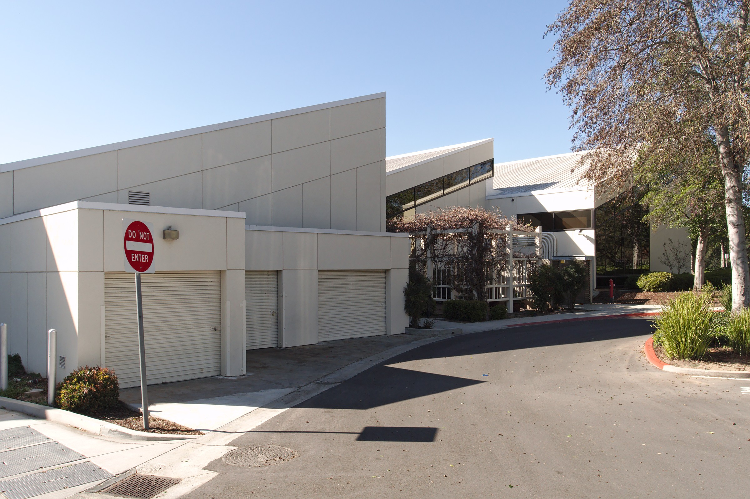 Service doors at the Thousand Oaks Library, officially the Grant R. Brimhall Library, view from east.